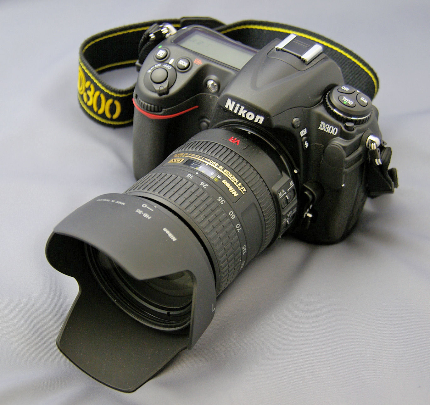 Nikon D300 Body